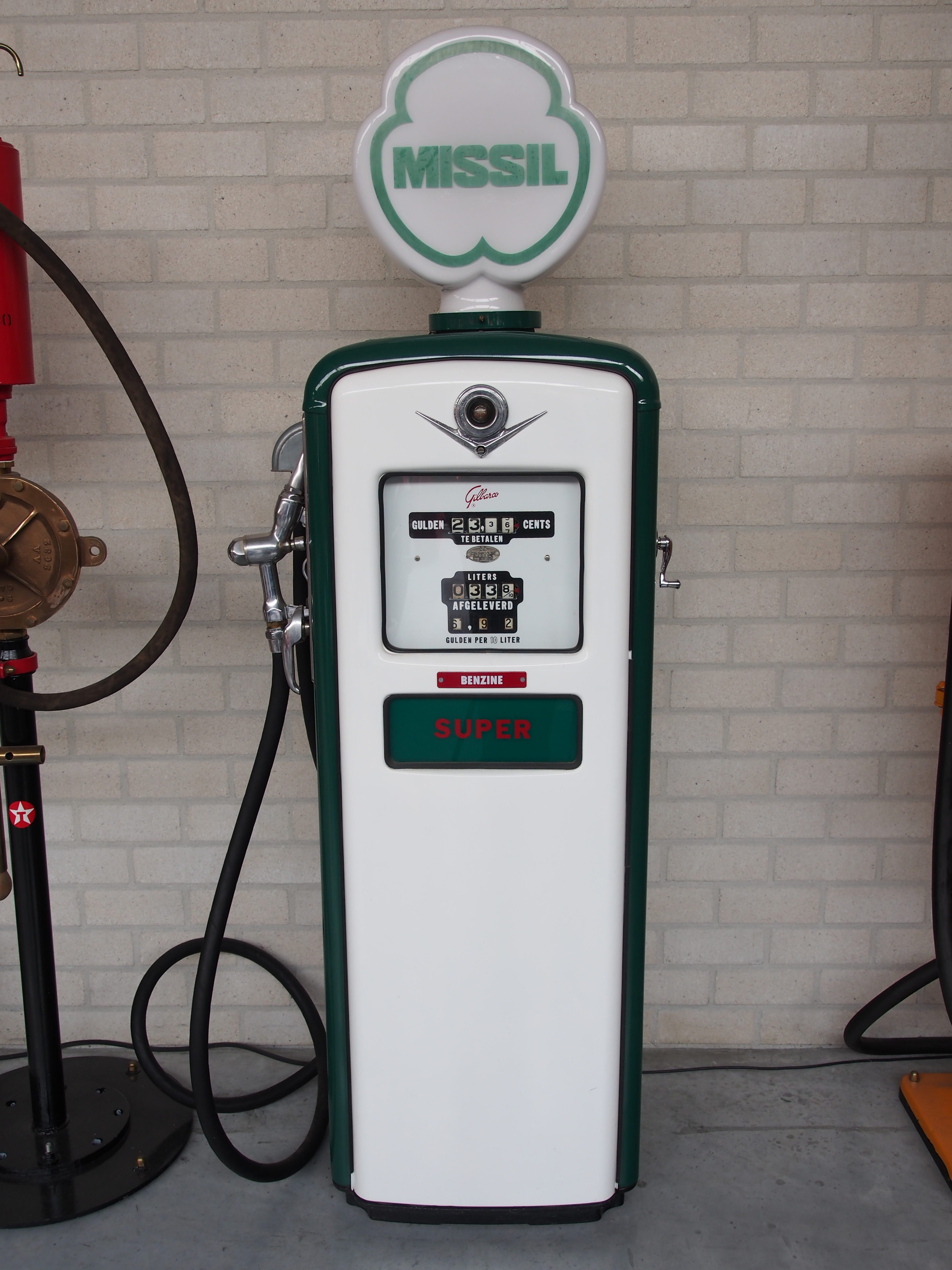 Photographed in the MUSEUM for NOSTALGIA and TECHNICS, Dorpsstraat 38, Langenboom, The Netherlands.